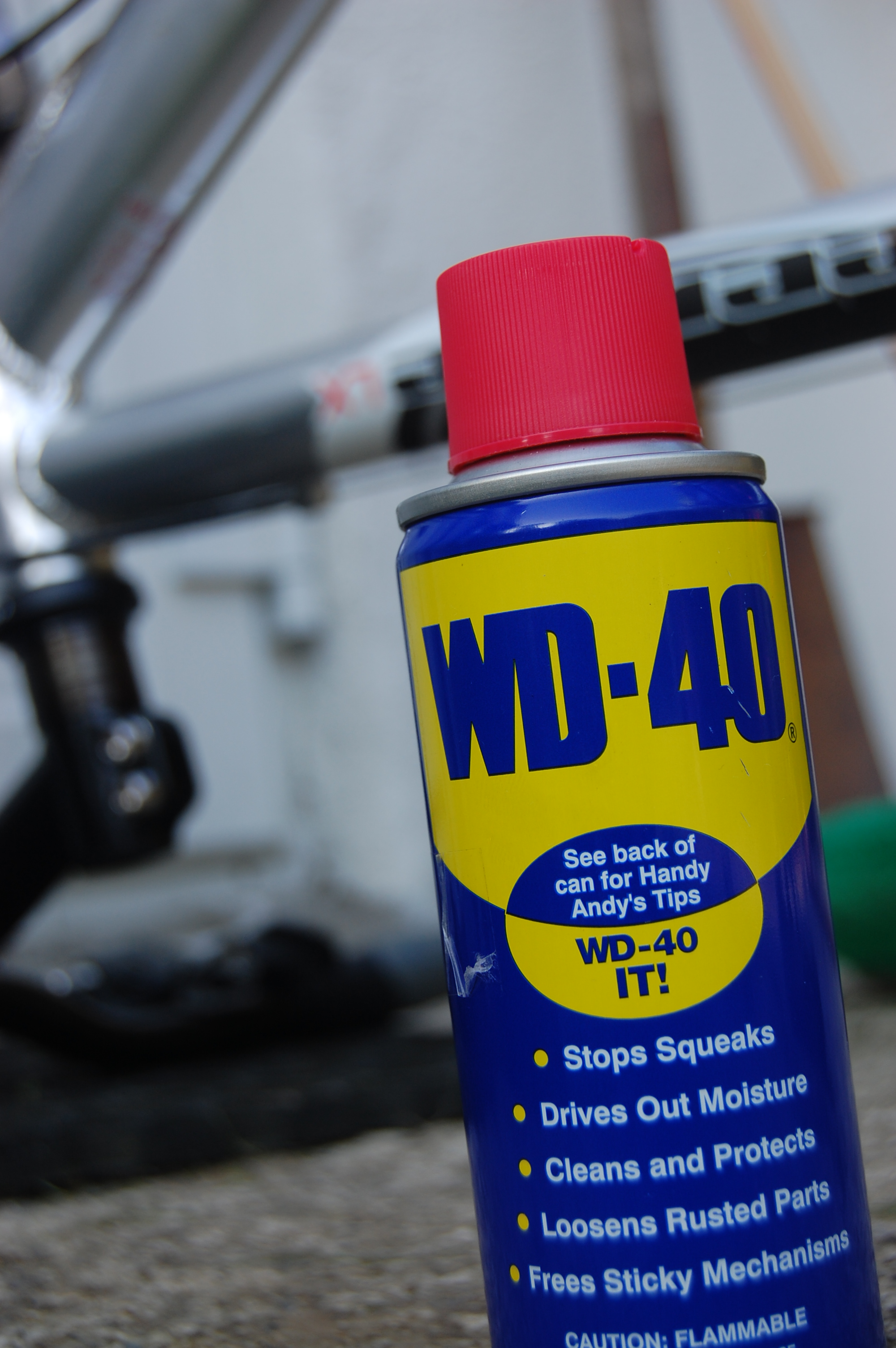 WD-40